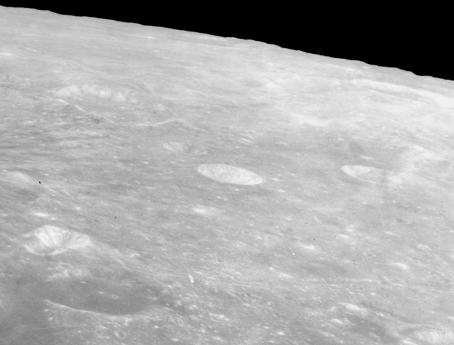 Apollo 15 oblique mapping camera image rotated and cropped in GIMP to show Cayley crater (center) and surrounding terrain, including the craters Ariadaeus (bright, left foreground), D'Arrest (left background), and Whewell (right).